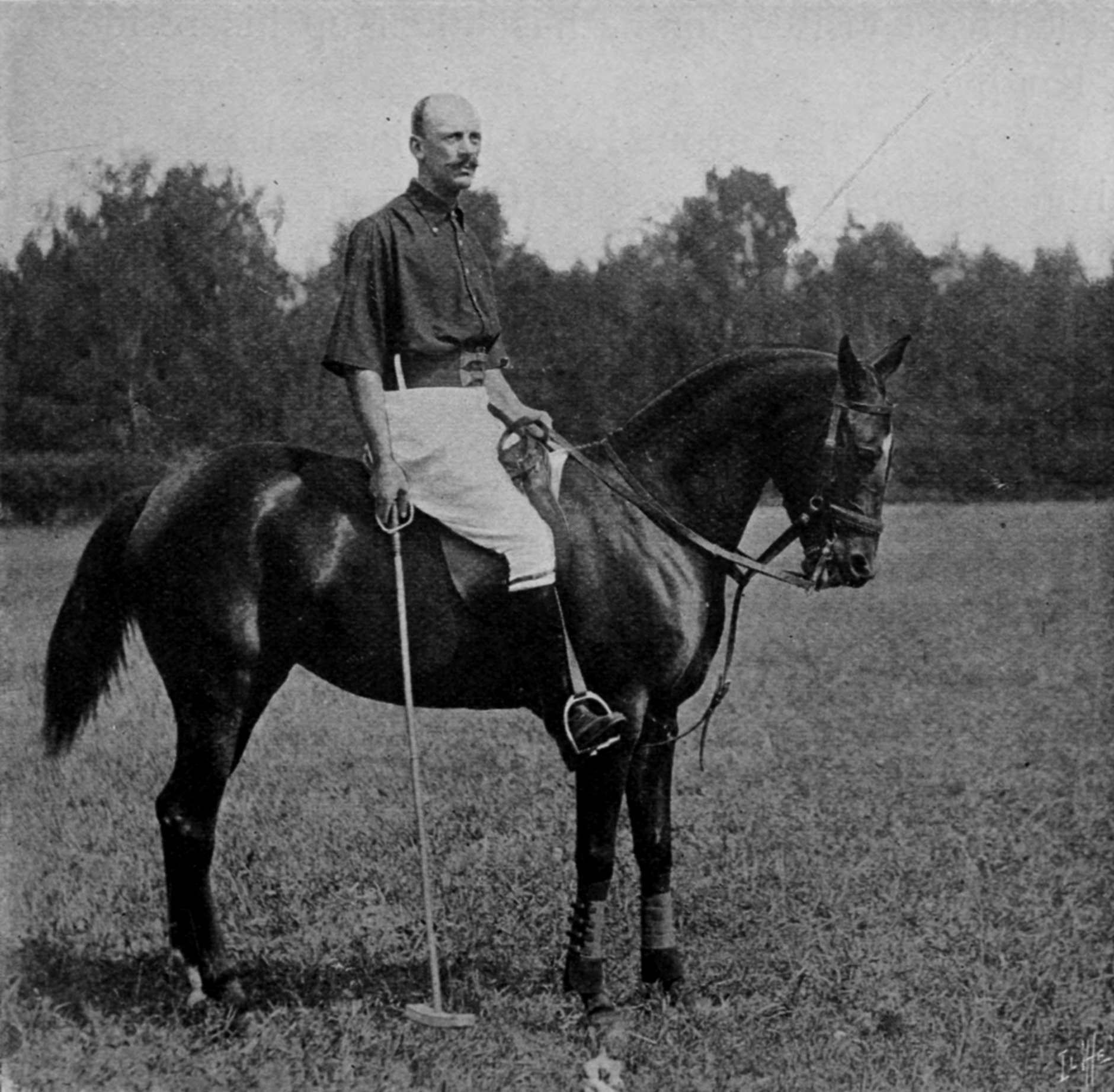 Prince Serge Belosselsky on his Indian Half-bred pony Negress